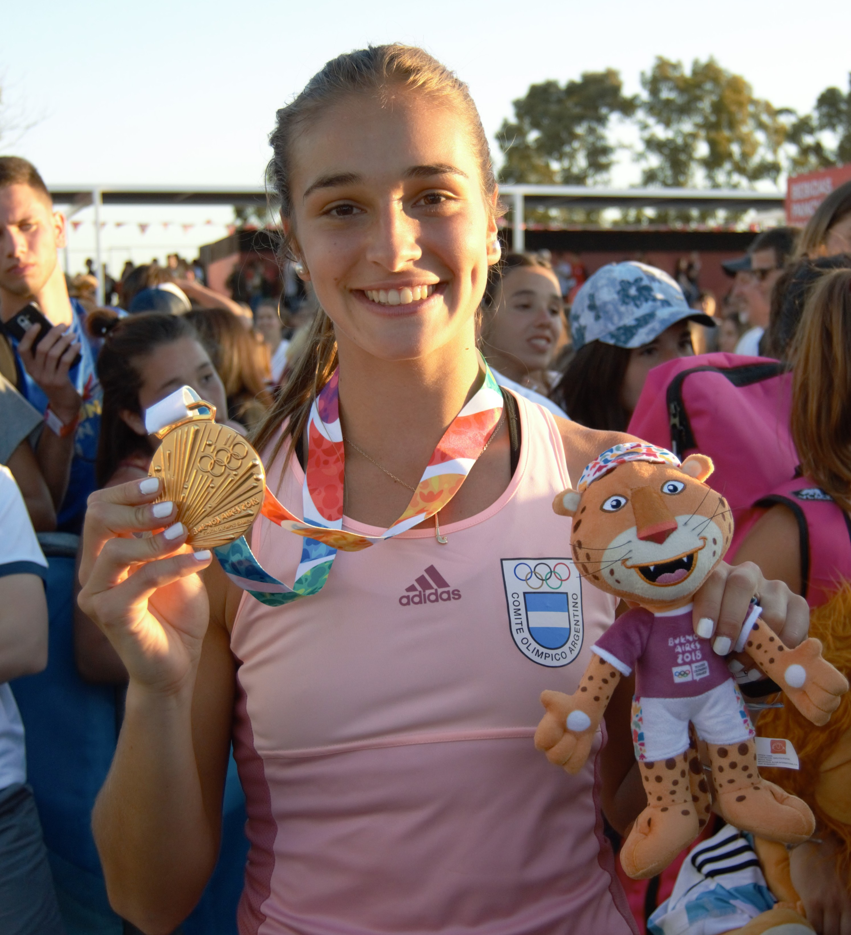 Celina Di Santo with his gold medal after winning the Hockey 5 final at the 2018 Summer Youth Olympics.